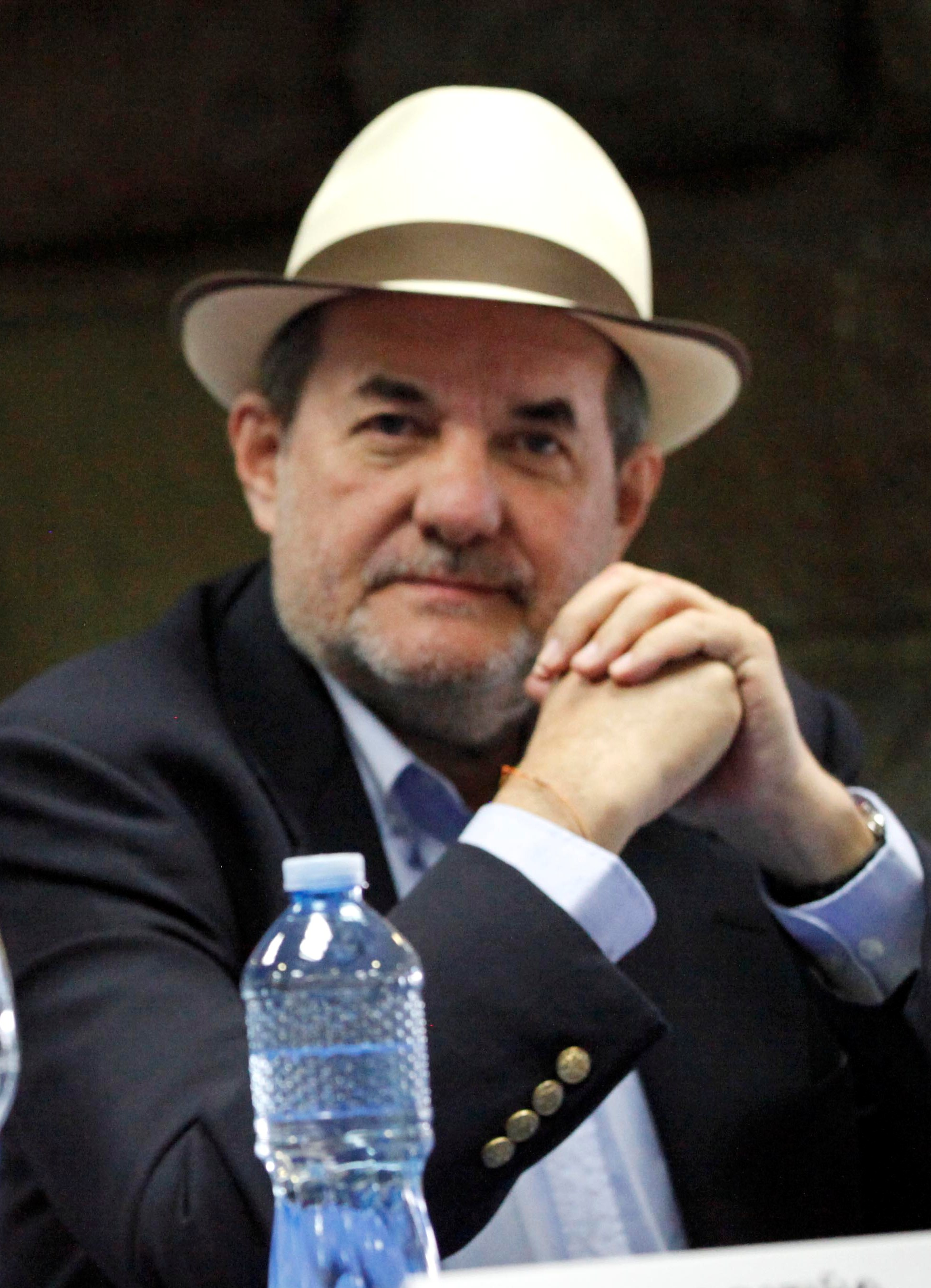 Ecuadorian Minister of Tourism, Freddy Ehlers, at the opening of the airroute between Quito and Lima on 26 November 2012.